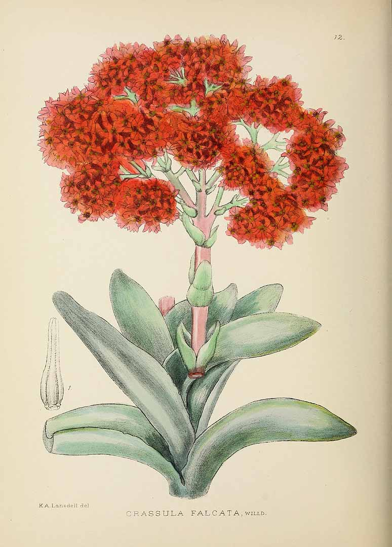 Crassula perfoliata L. [as Crassula falcata J.C.Wendl.] Pole Evans, I.B., Flowering plants of (South) Africa, a magazine containing hand-coloured figures with descriptions of the flowering plants indigenous to South Africa, vol. 1: t. 12 (1922) [K.A. Lansdell] family:Crassulaceae, Illustration contributed by the Smithsonian Institute, Washington, U.S.A.